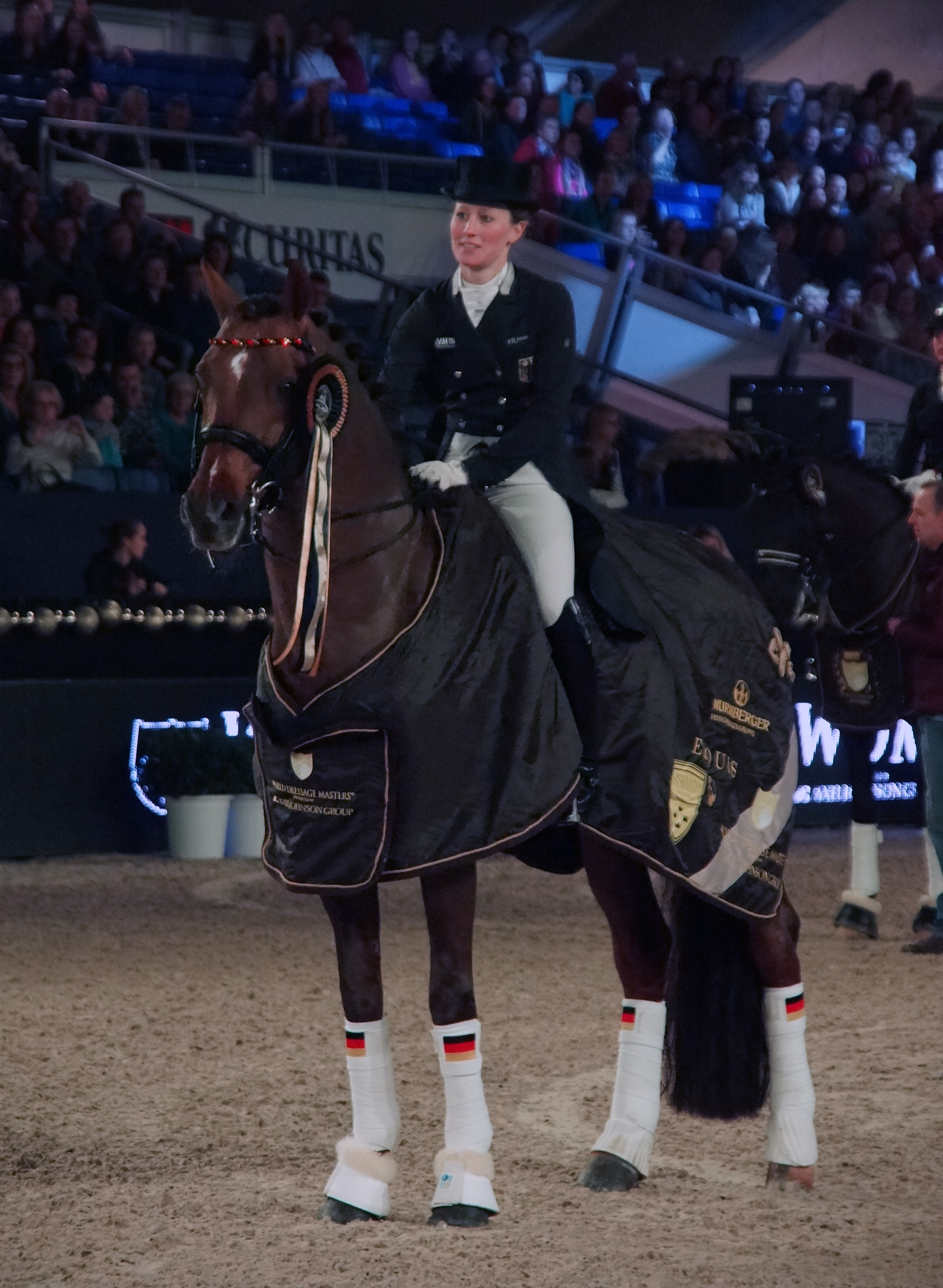 CDI 5* World Dressage Masters at 2013 Vlaanderens Kerstjumping - Jumping Mechelen: Helen Langehanenberg and Damon Hill NRW at the prize giving ceremony